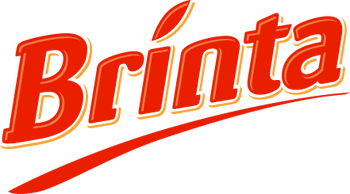 Brinta, an acronyme for "Breakfast instant tarwe"